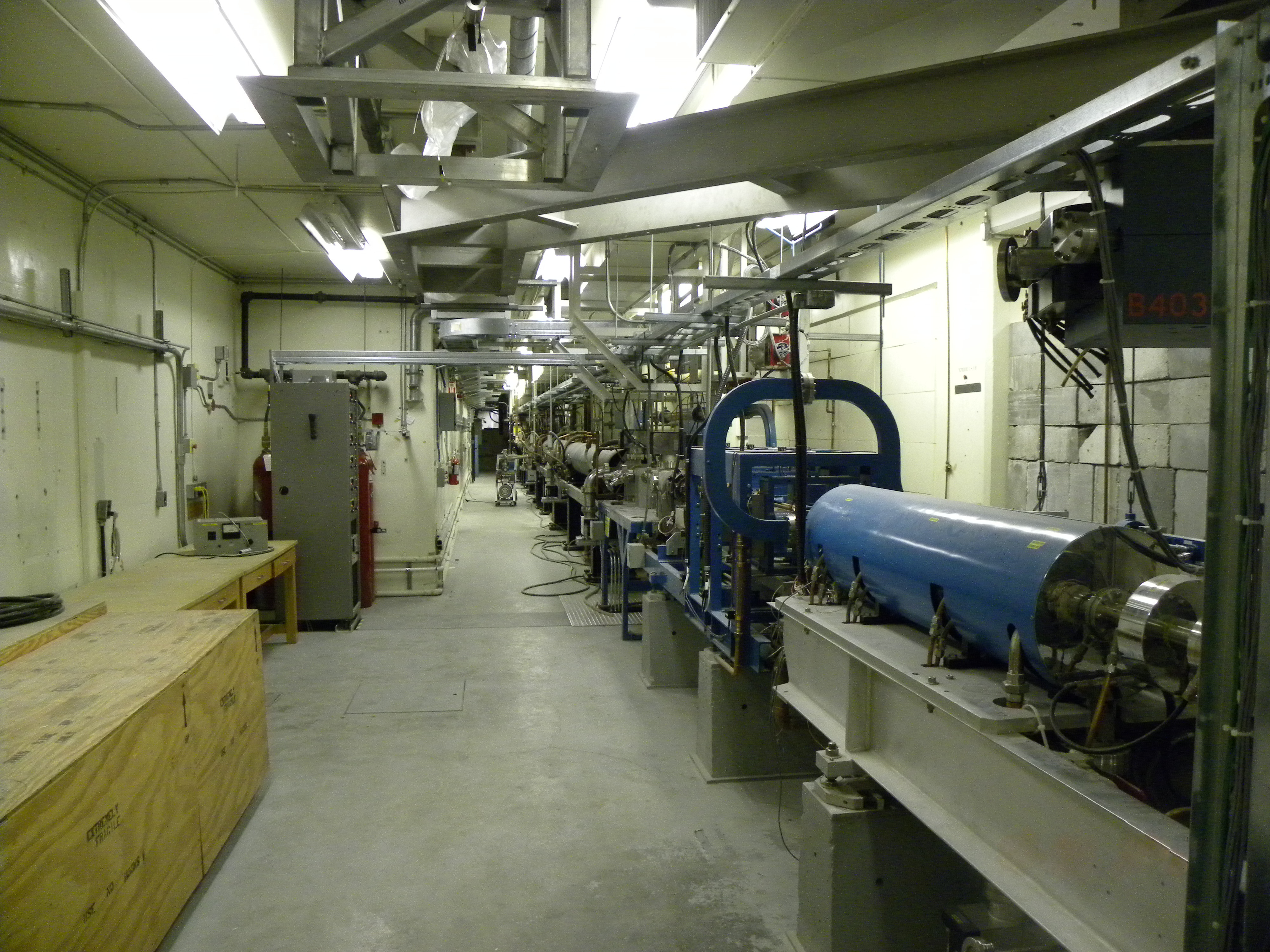 The Saskatchewan Accelerator Lab LINAC, in use as part of the injection system at the Canadian Light Source in 2011